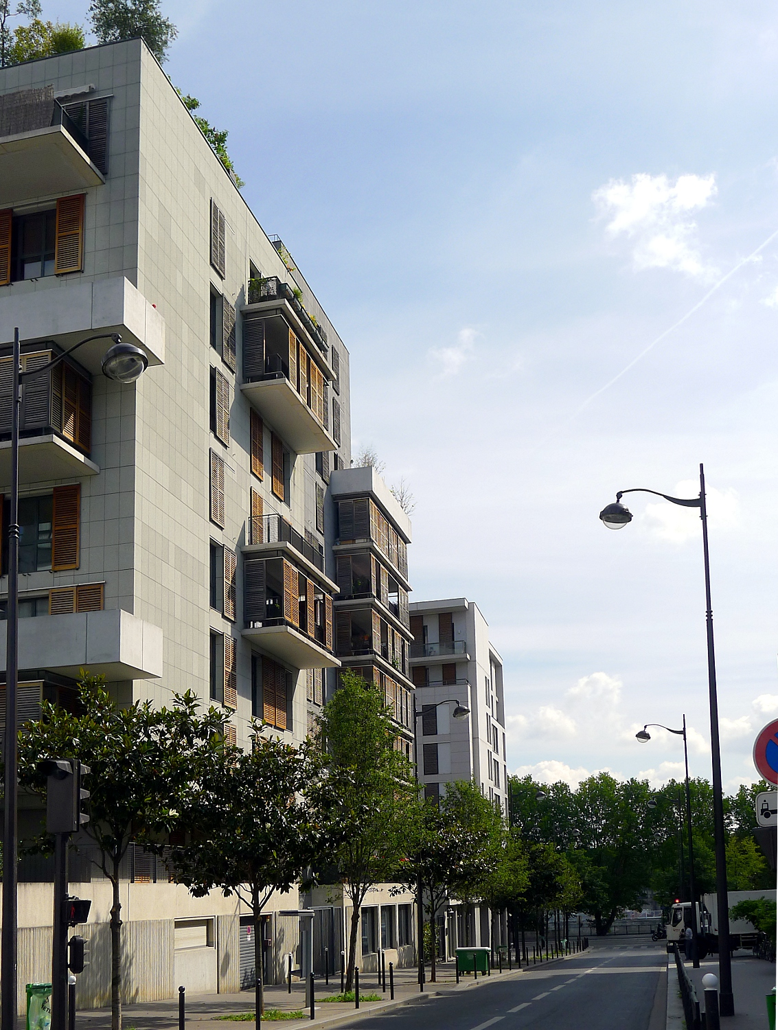 Thomas-Mann street - Paris